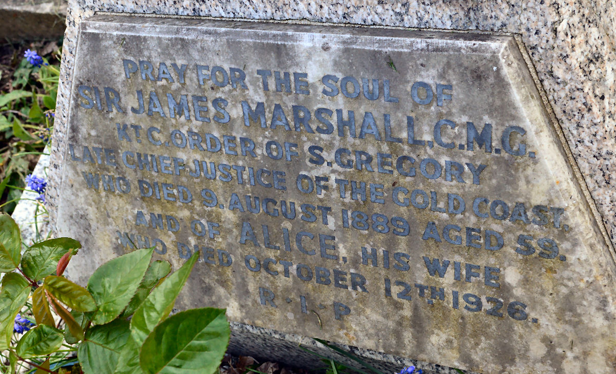 Grave of Sir James Marshall (1829–1889) and Alice. In St Mary Magdalen, Mortlake